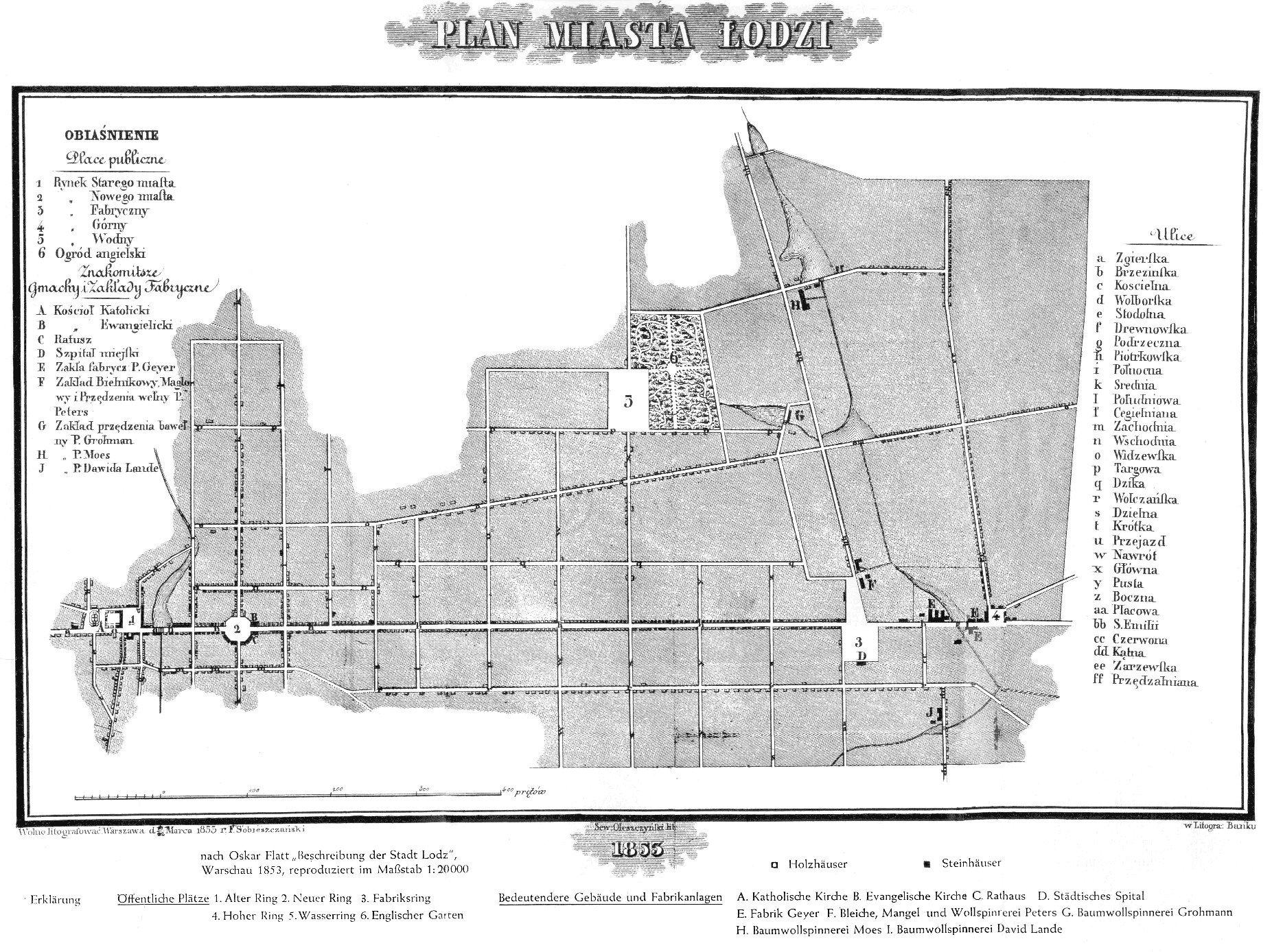 Map of Łódź in 1853